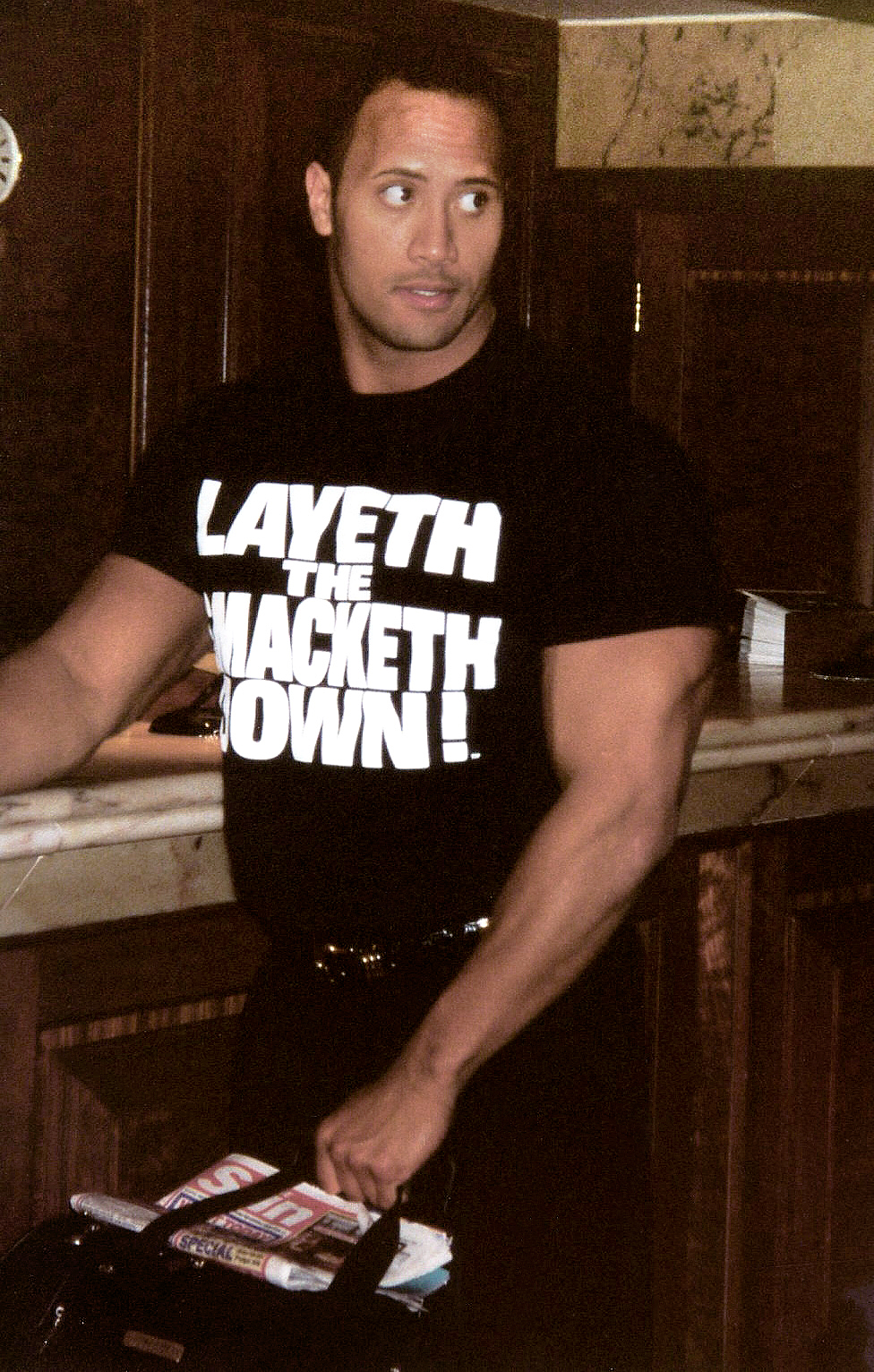 Professional wrestler Dwayne "The Rock" Johnson on tour in England with the WWF#